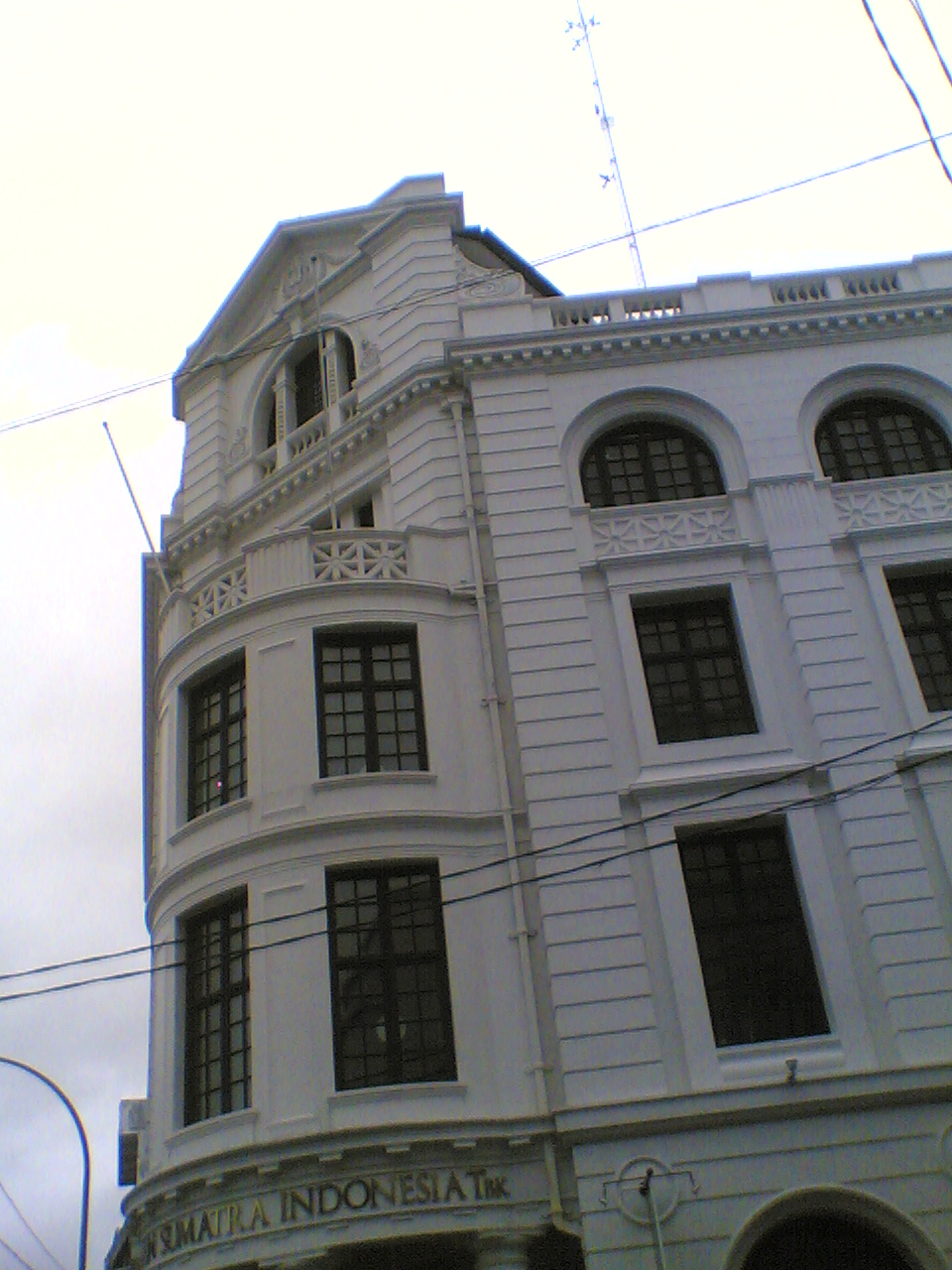 Harrison & Crossfield building in Medan, Indonesia. Currently occupied by PT. London Sumatra Tbk. Taken on December 2006.